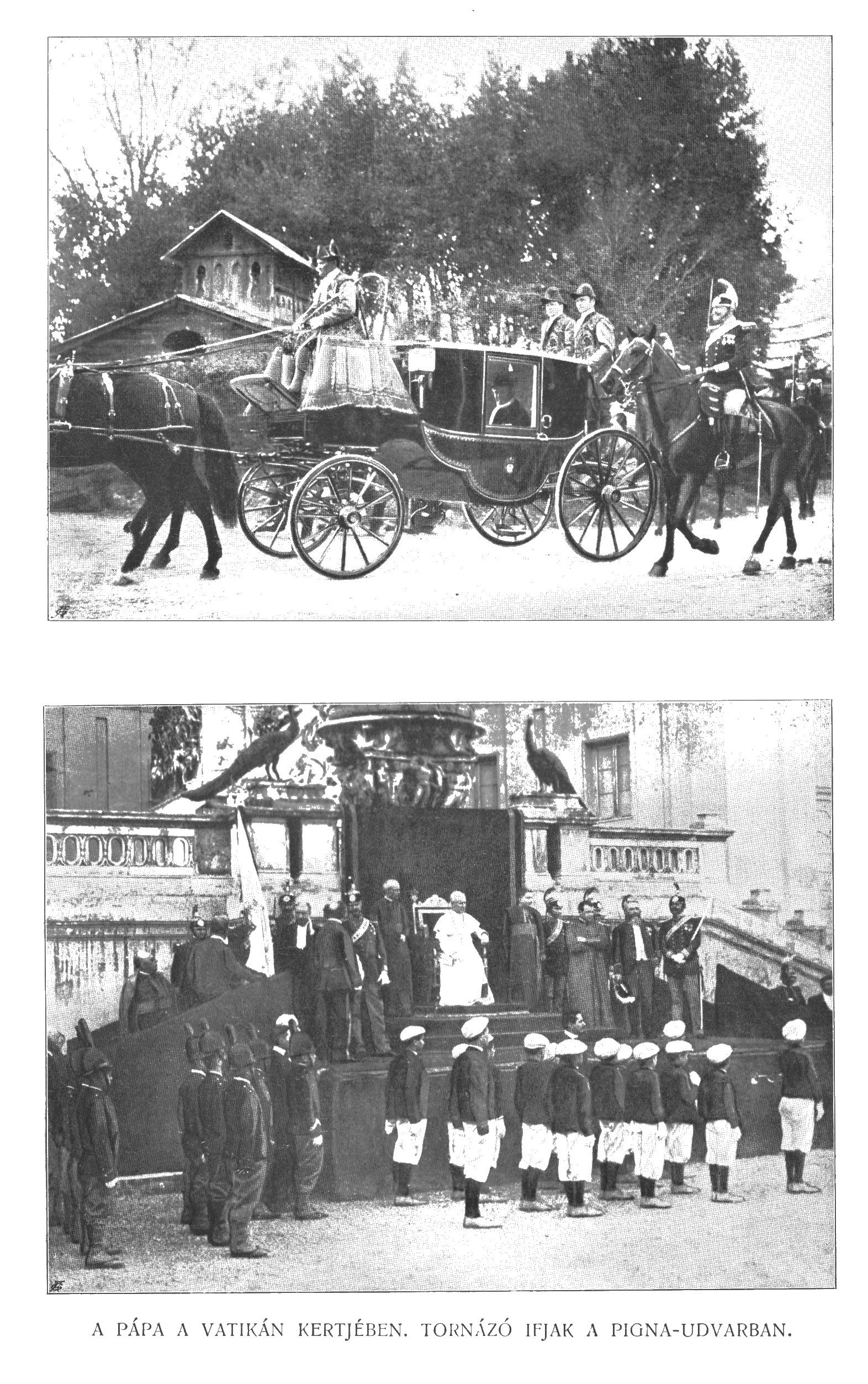 Pope Pius X in Vatican' garden in carriage with horses; boys make gymnastics before Pius X in Pigna-yard in Vatican